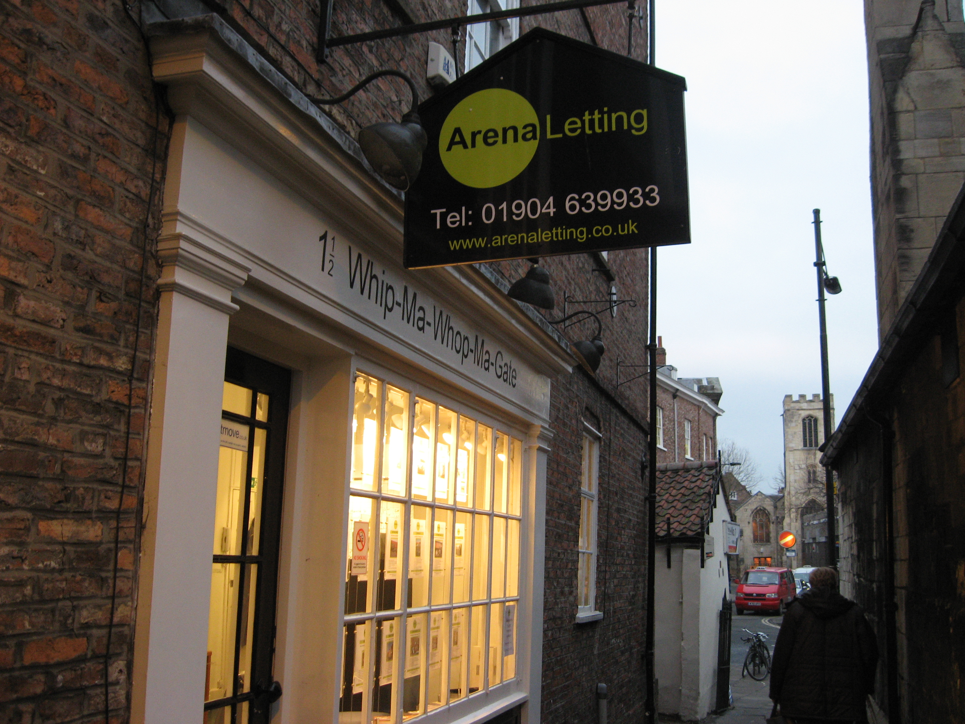 1 1/2 Whip-Ma-Whop-Ma Gate, York